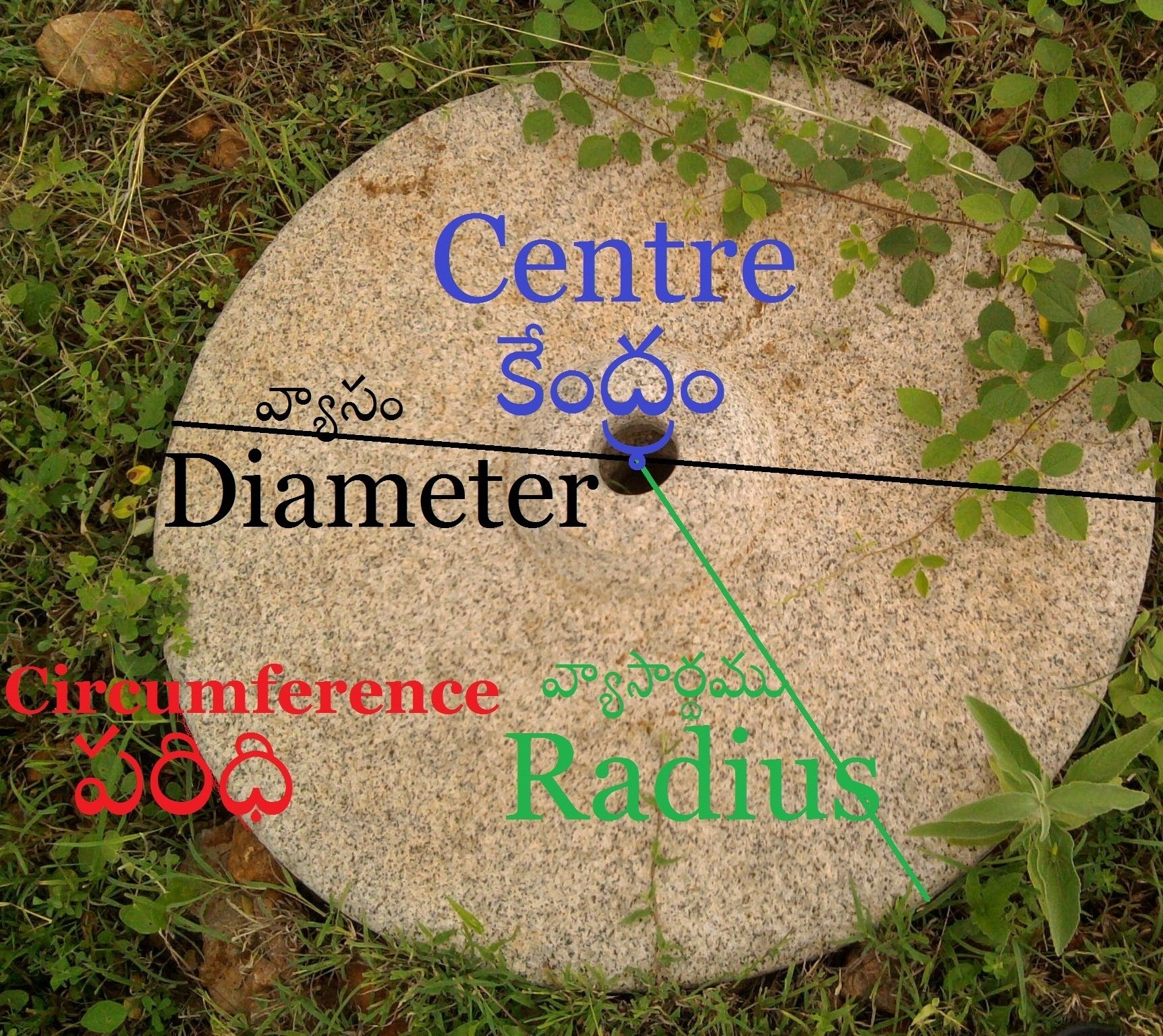 Radius - Example at Stone whell